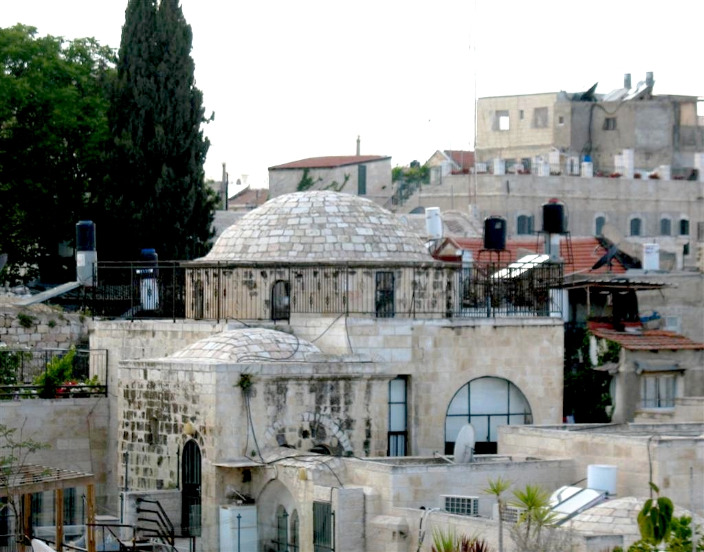 Old Jerusalem, 36 Chabad street (רְחוֹב חַבָּ״ד), Sukkat Shalom Synagogue, founded in 1836 by the Perushim of Kollel Hod (HollandDeutschland), in "The Chush" or "the Hush" (חצר החוש), compound of residential courtyards dating from the early 1800s. View from the roof of the cardo.